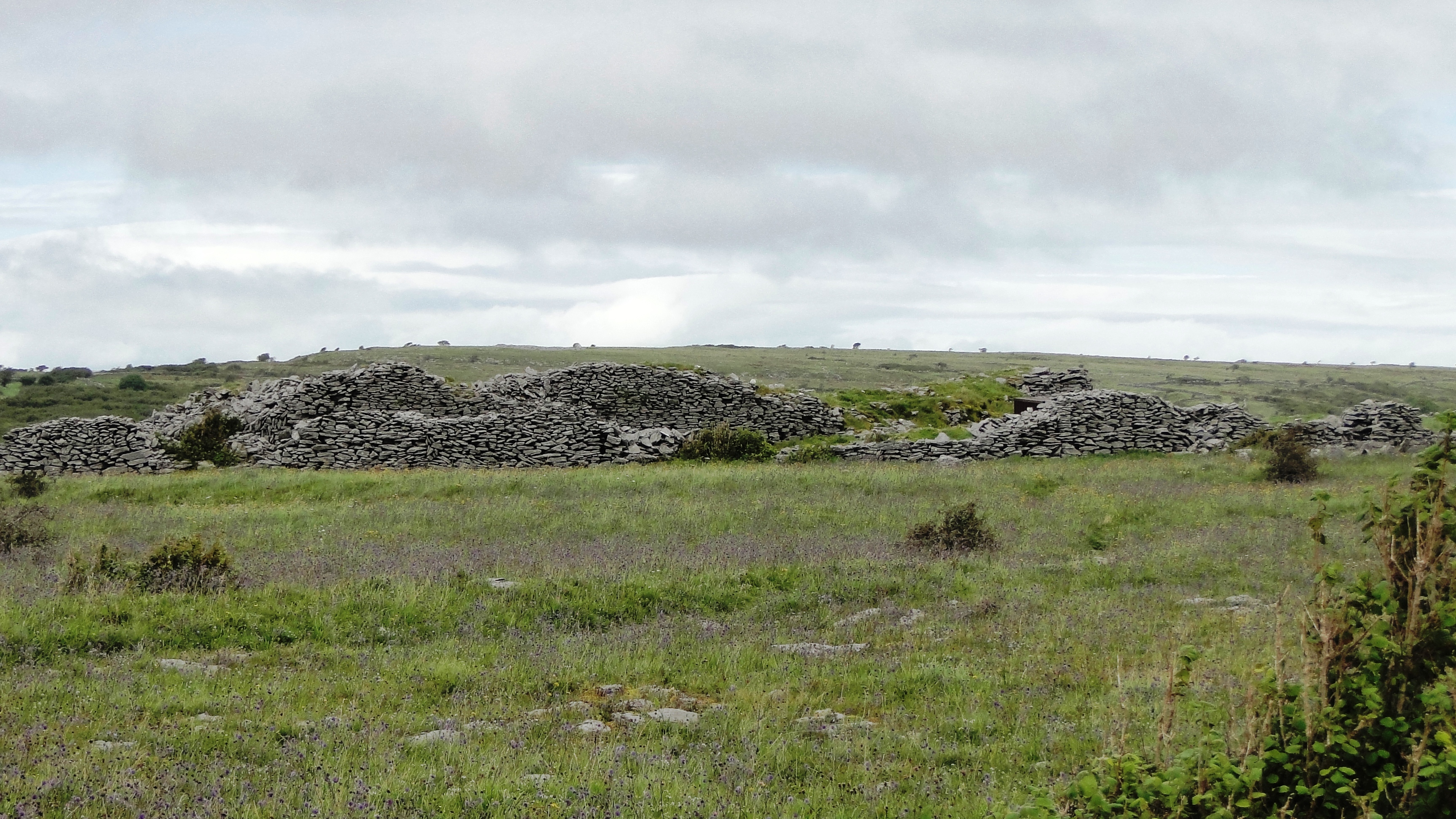 Inner and outer wall of Cahercommaun ringfort, County Clare, Ireland, summer 2016